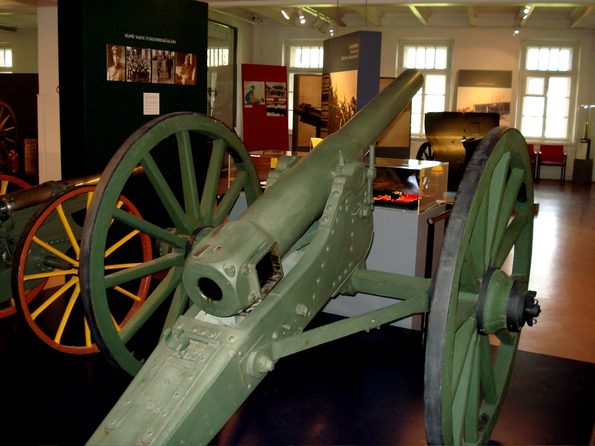 Russian Model 1877 87 mm field gun, barrel manufactured by Krupp, displayed in Hämeenlinna Artillery Museum. Photo taken on June 18, 2006. Source: Photo by me, User:Balcer.